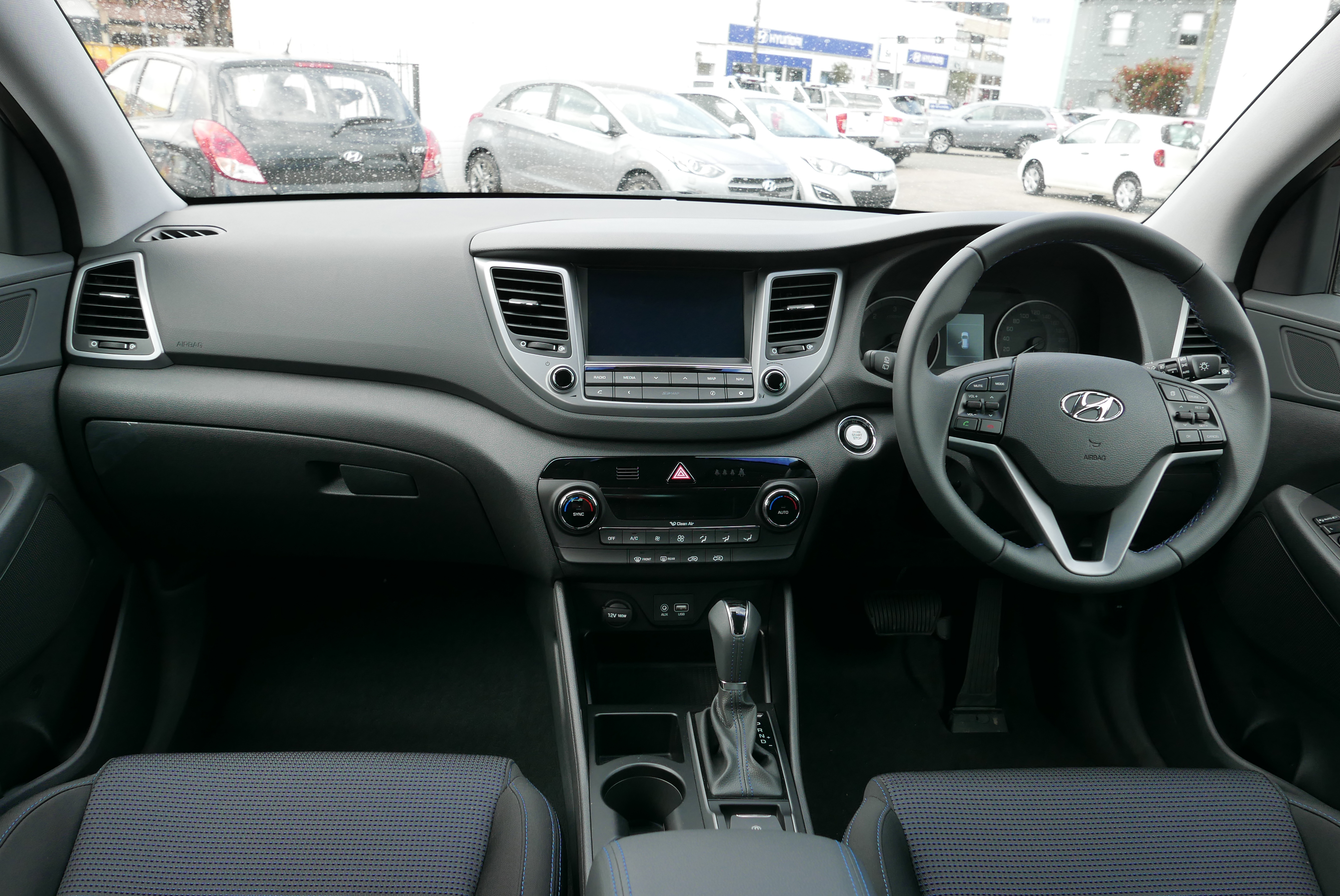 2015 Hyundai Tucson (TLe MY16) Elite CRDi AWD wagon. Photographed at Yarra Hyundai, Abbotsford, Victoria, Australia. Vehicle registration enquiry results Jurisdiction Victoria Registration 1FC6XF Chassis code TMAJ381ASGJ001218 Engine code D4HAFZ104840 Compliance date 2015-09 Year of manufacture 2015